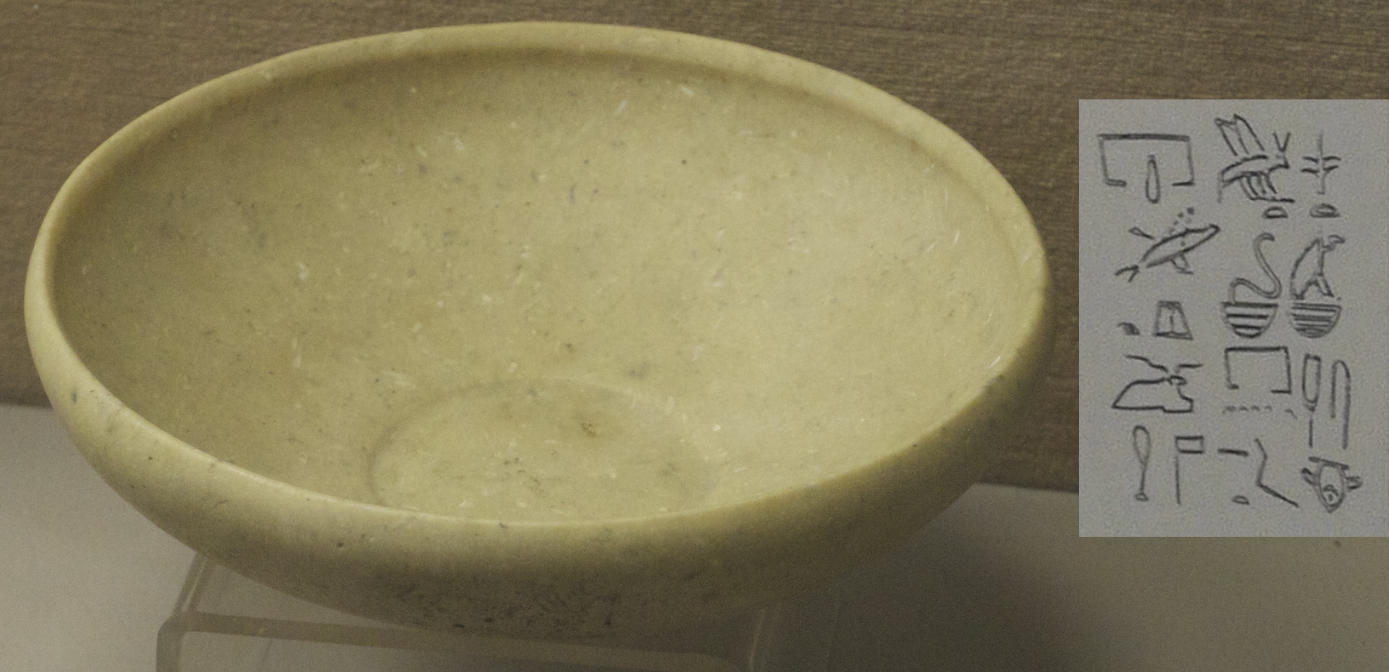 Alabaster vase of Sekhemib Perenmaat bearing the inscription reproducted on the right of the picture. Musee des Antiquites Nationales, St Germain en Laye.